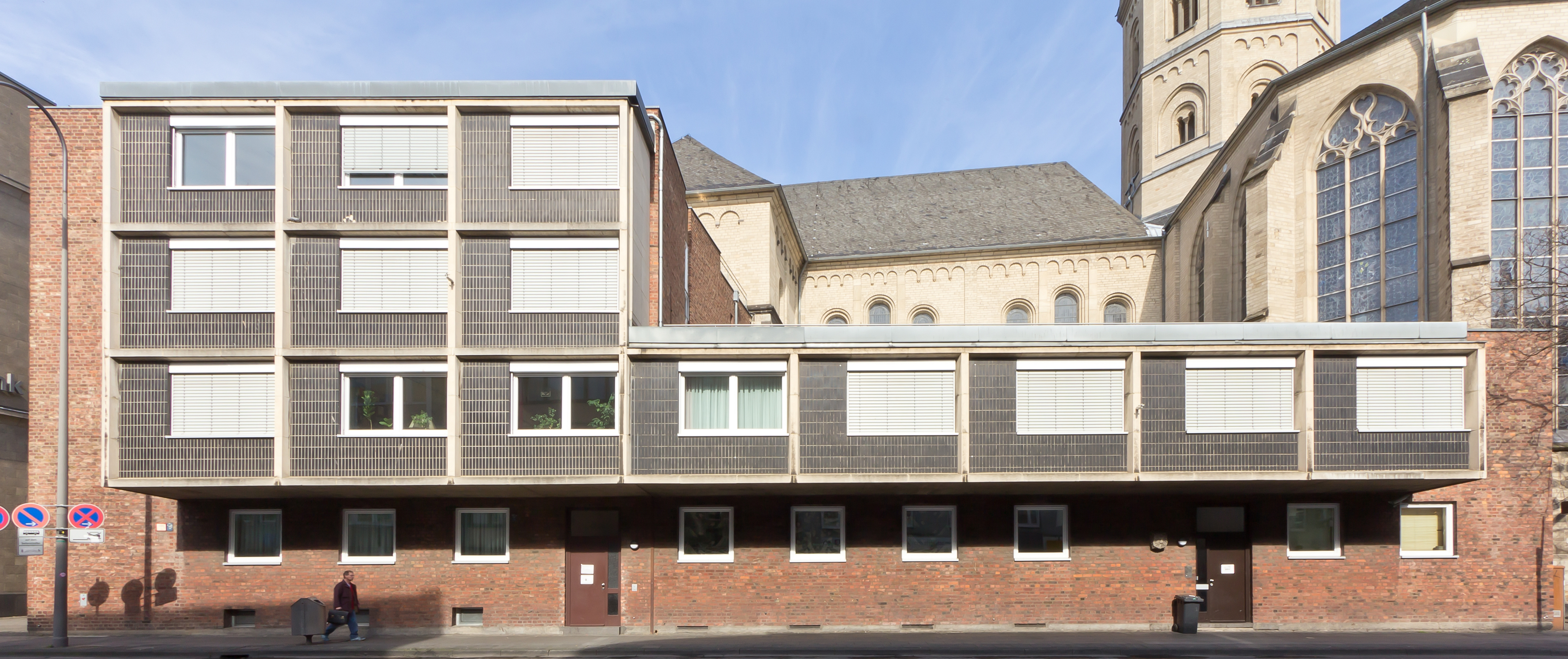 Monastery nearby St. Andreas, Cologne. This house is protected as cultural heritage. Architect: Karl Band